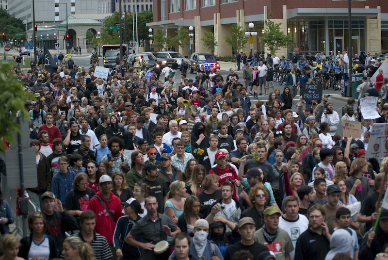 w:2008 Republican National Convention day 2 protest, St. Paul, Minnesota, USA.